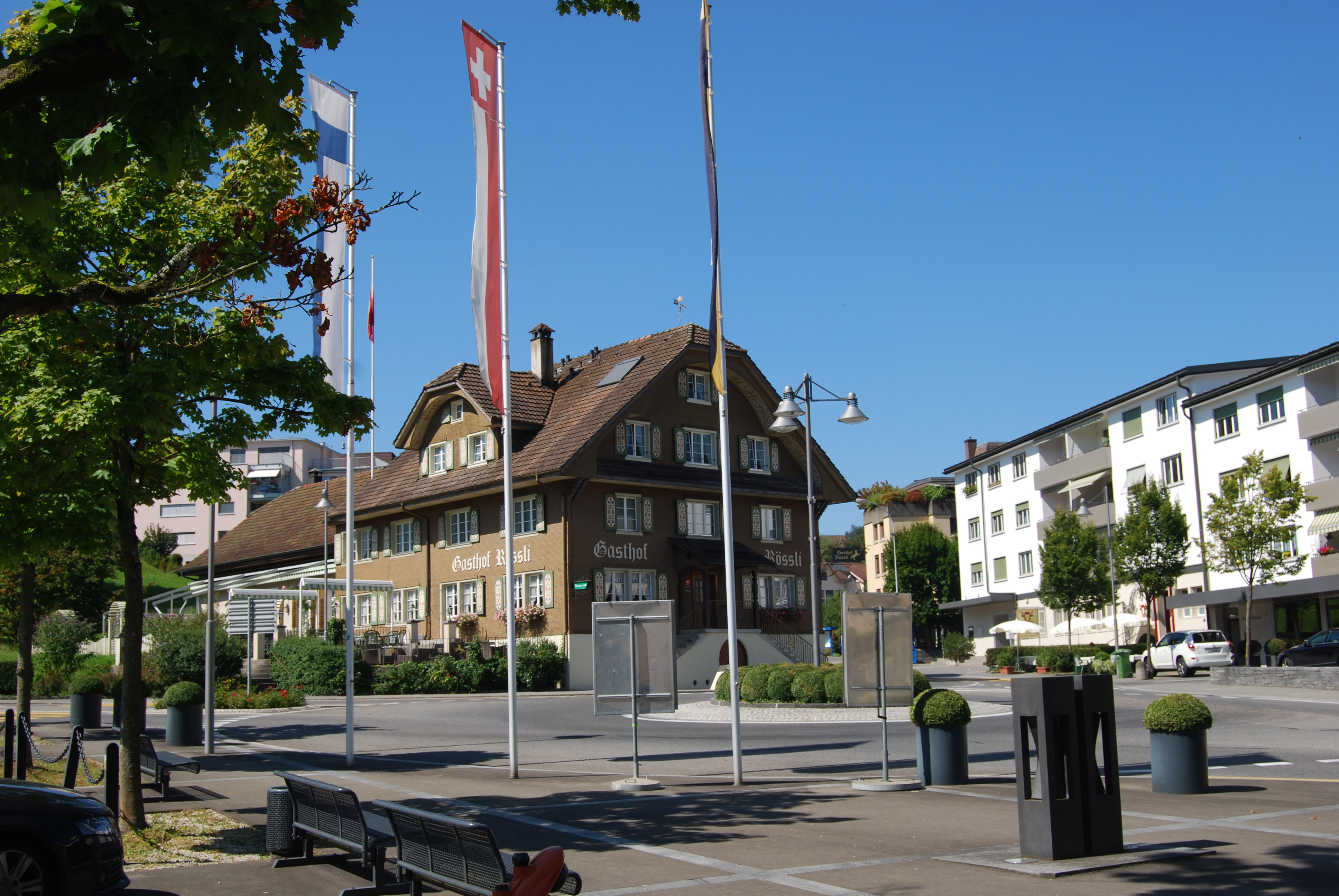 Adligenswil, canton of Lucerne, SwitzerlandEsperanto: Adligenswil, Kantono Lucerno, Svislando